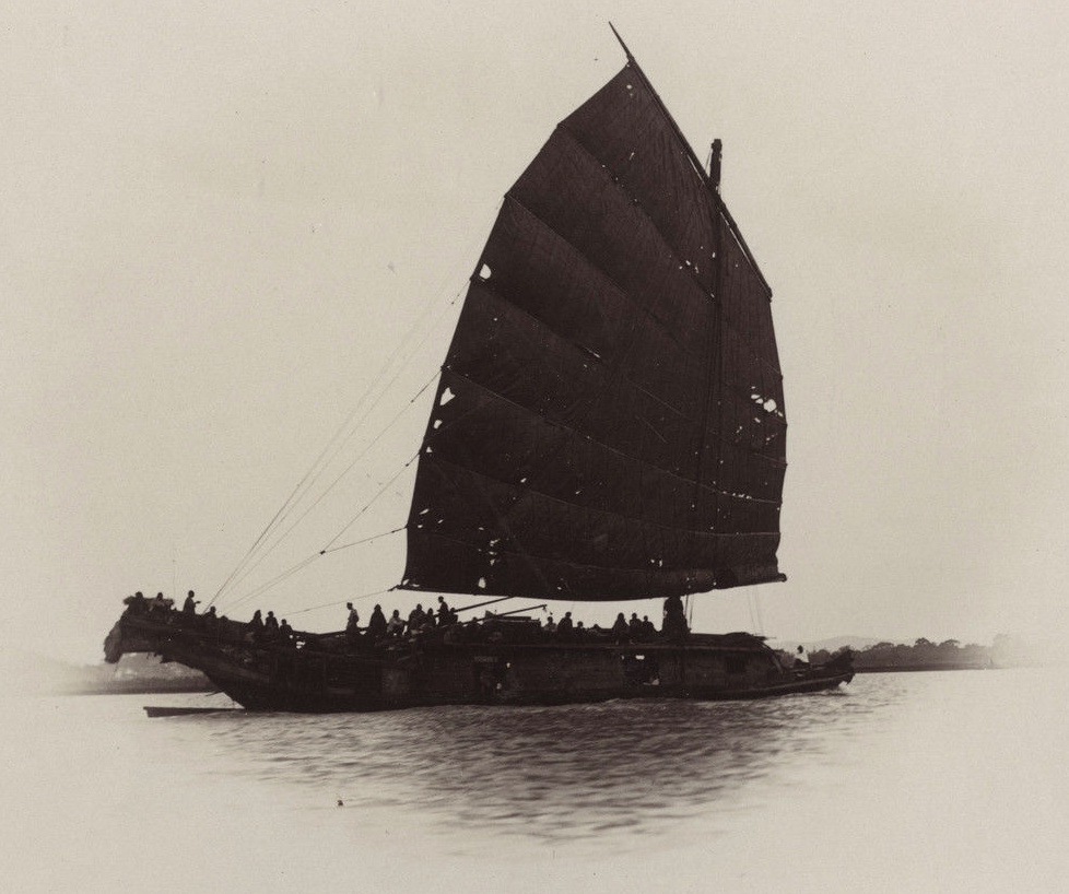 Scan of an albumen print of a photograph of a junk near Hong Kong